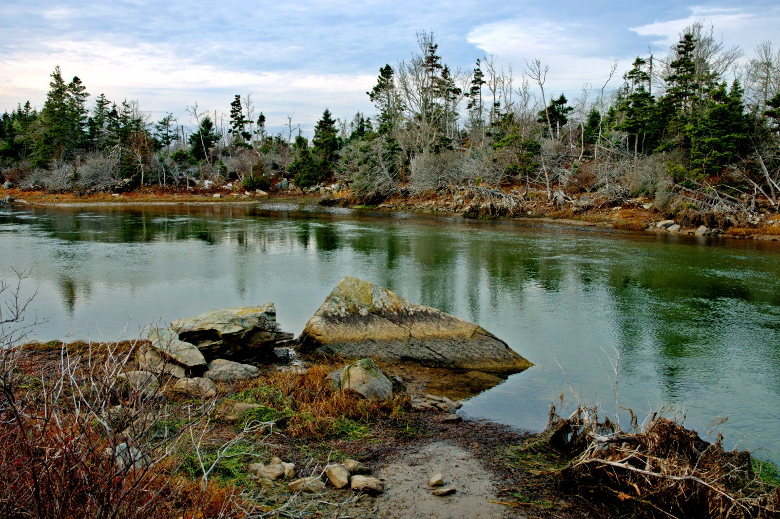 Cole Harbour, Nova Scotia, Canada 25 mm, F8, 1/100s, 200 ISO Nikon D5000, Nikkor 16-85mm; Gimp and Digikam Taken on the 27th of Nov 2011